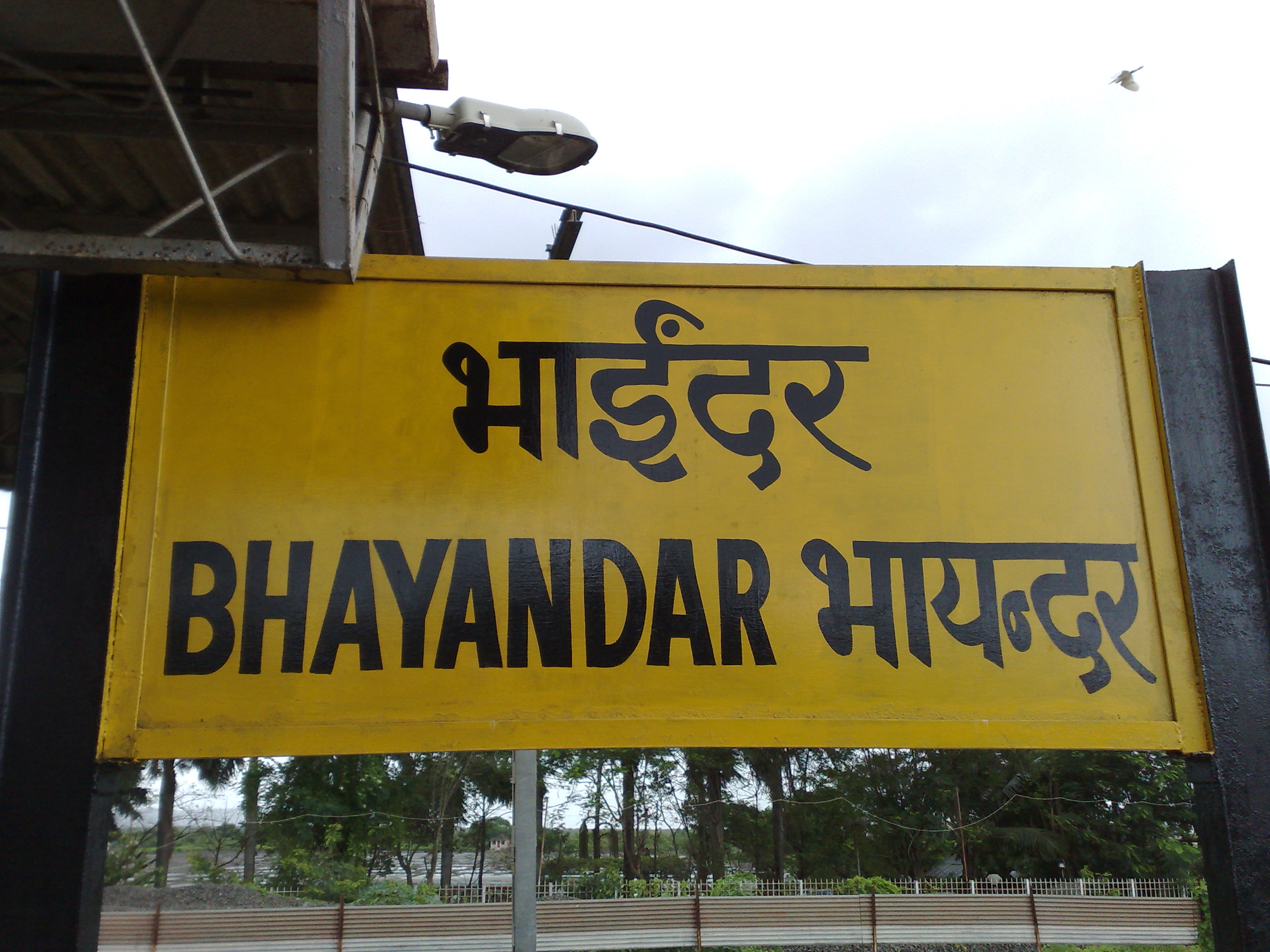 Bhayandar stationboard